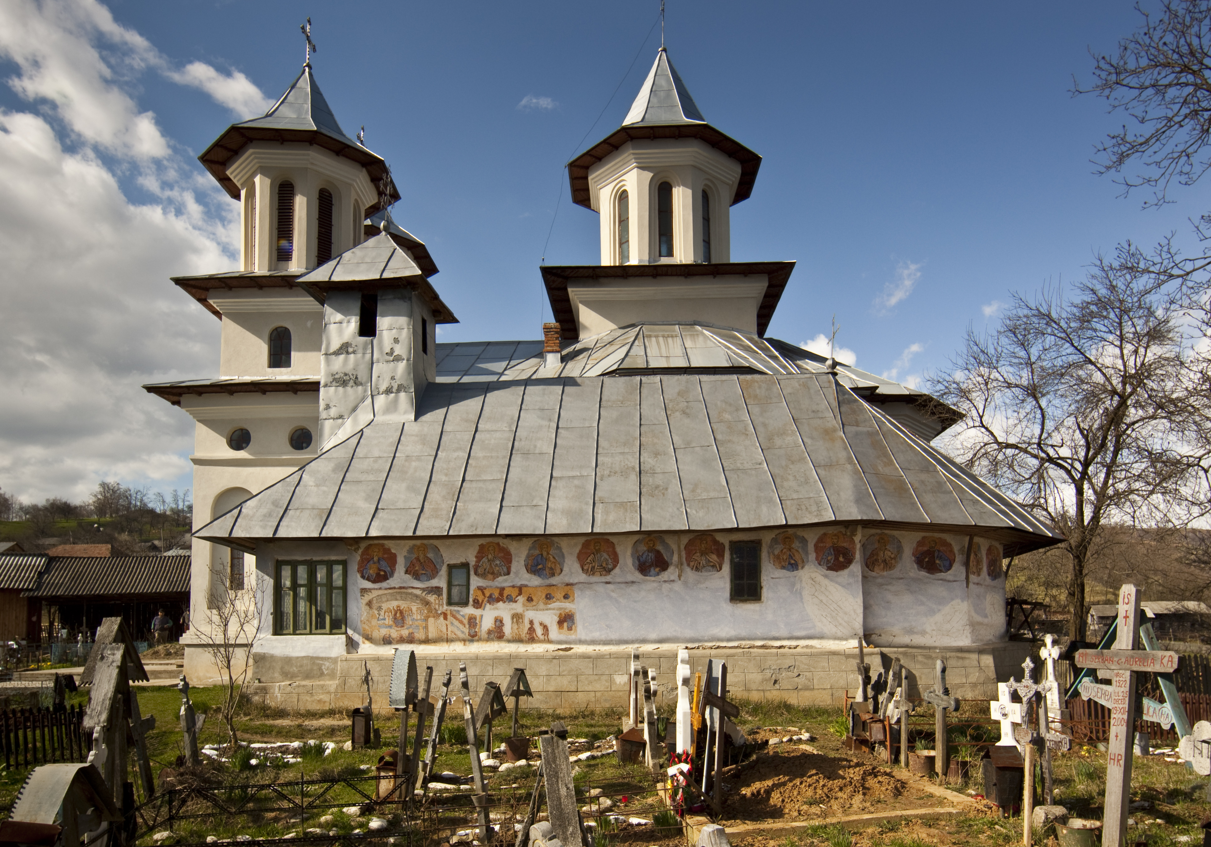 Urecheşti, Argeş county, Romania: the wooden church.